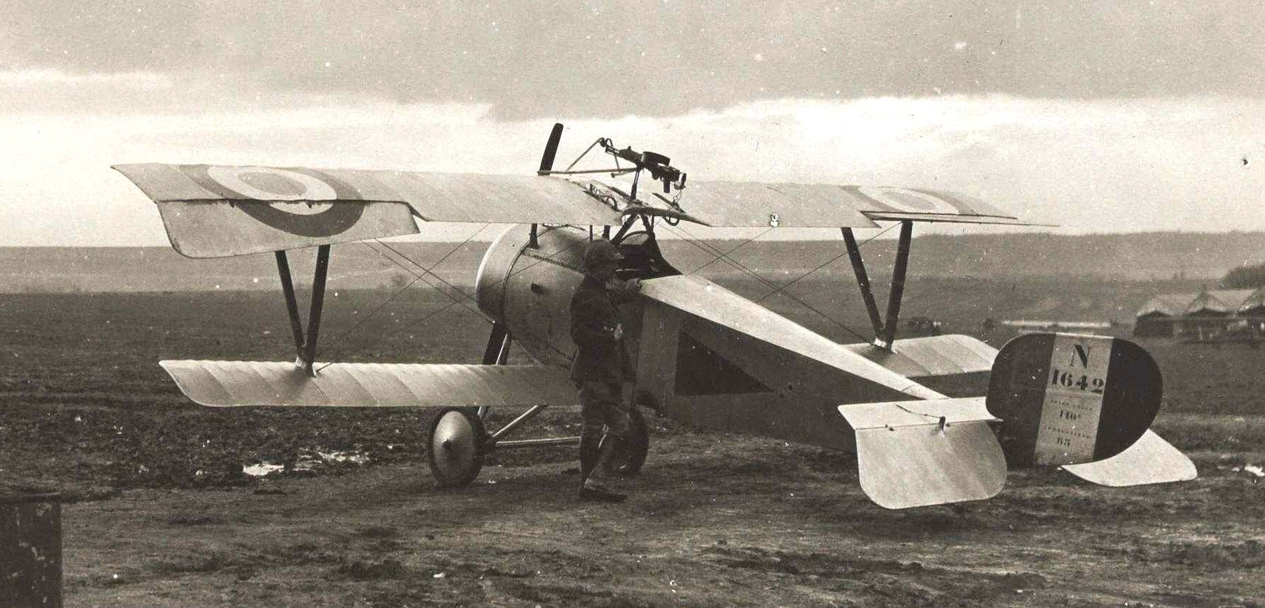 Nieuport 21 fighter at Lemmes aerodrome 16 November 1916